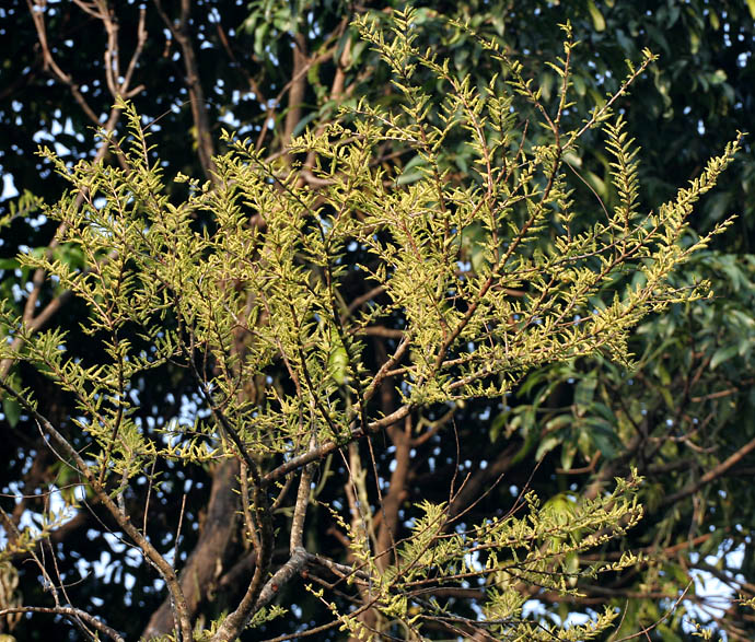 Indian gooseberry or Amla Phyllanthus emblica at Jayanti in Buxa Tiger Reserve in Jalpaiguri district of West Bengal, India.